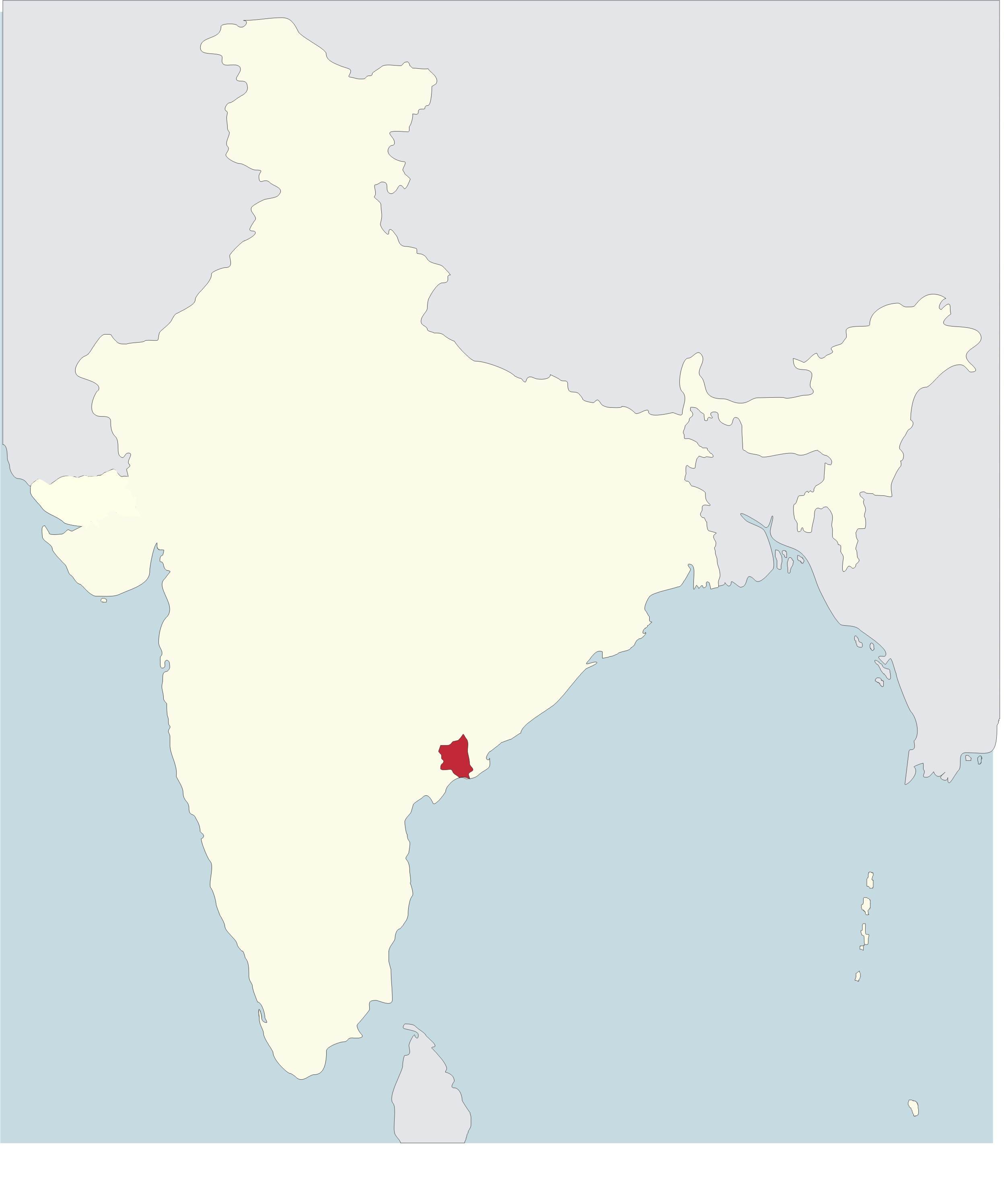 map of the Roman Catholic Diocese of Eluru in India